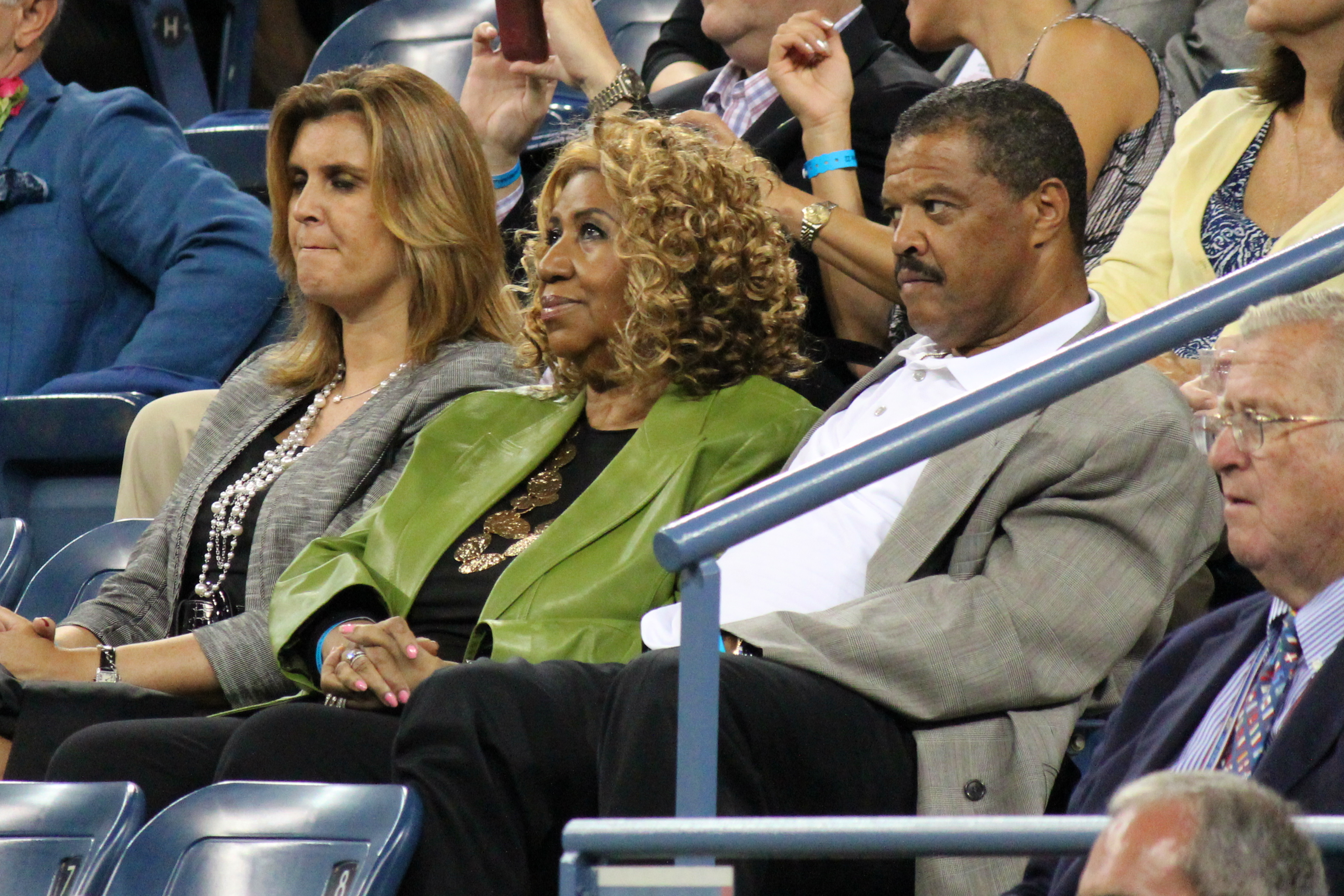 Aretha Franklin watching Roger Federer at the 2011 US Open